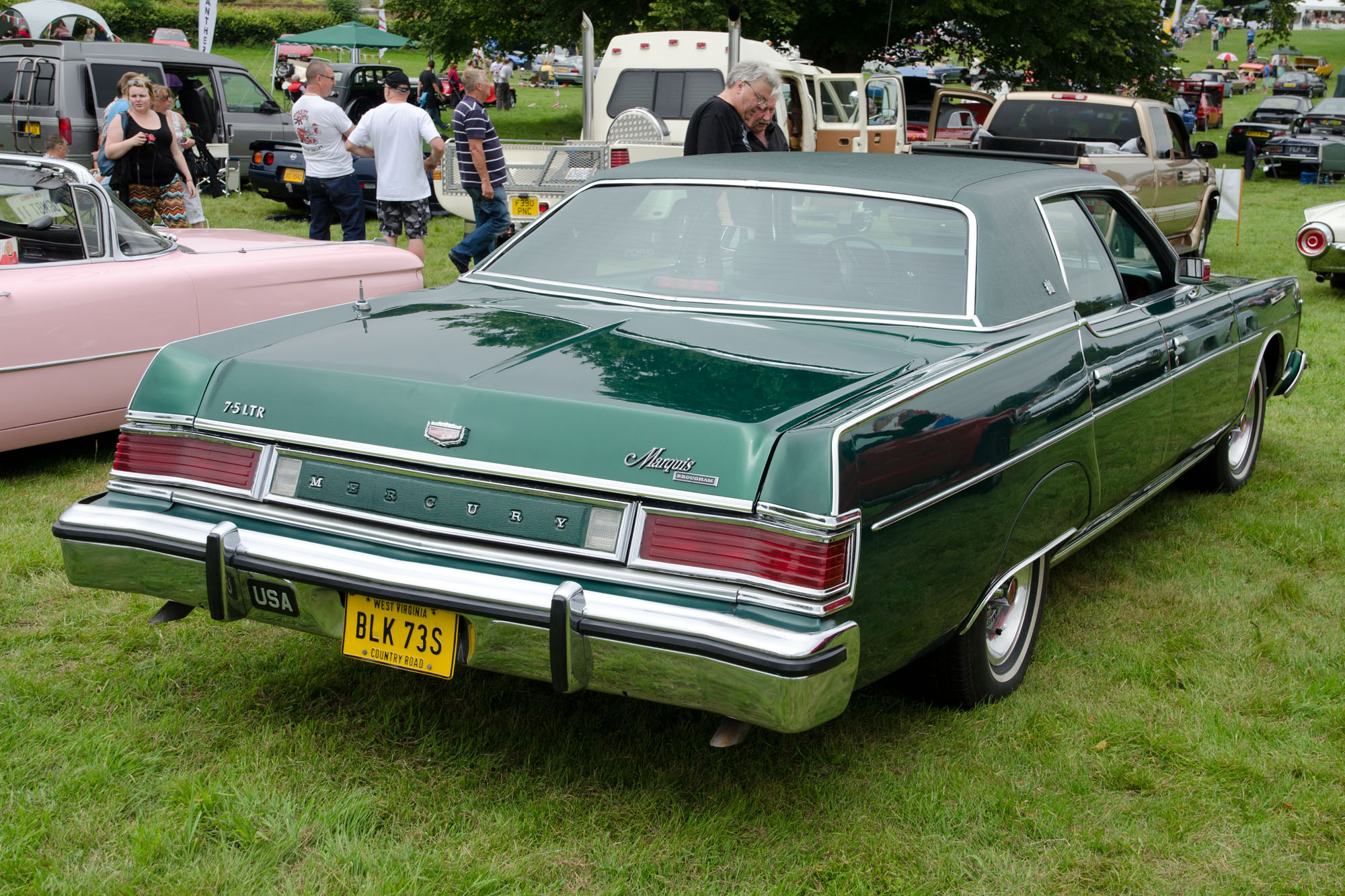 Bodelwyddan Classic Car Show 20/07/2014